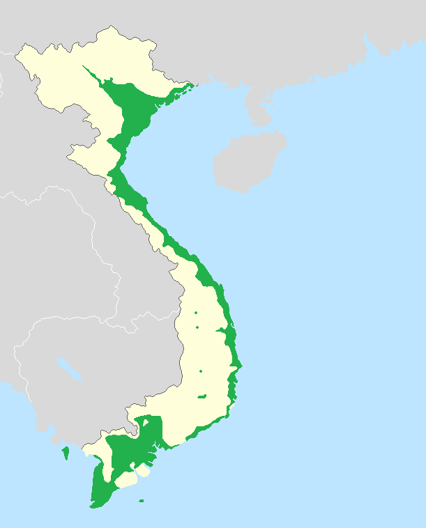 Areas of Vietnam where Vietnamese is the native language.